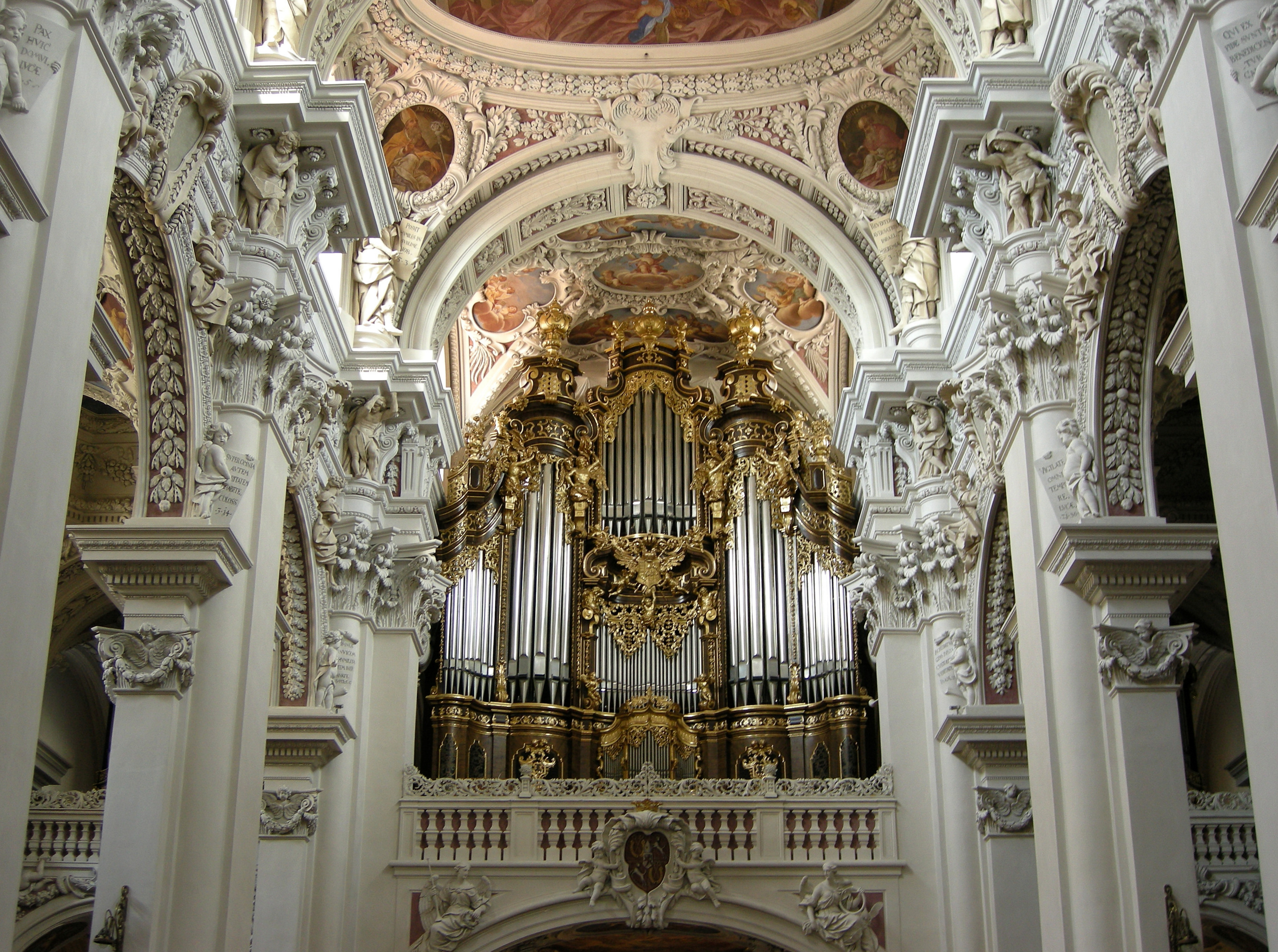 The largest church pipe organ in Europe with 17,774 pipes in the St. Stephen's Cathedral of Passau, Germany.